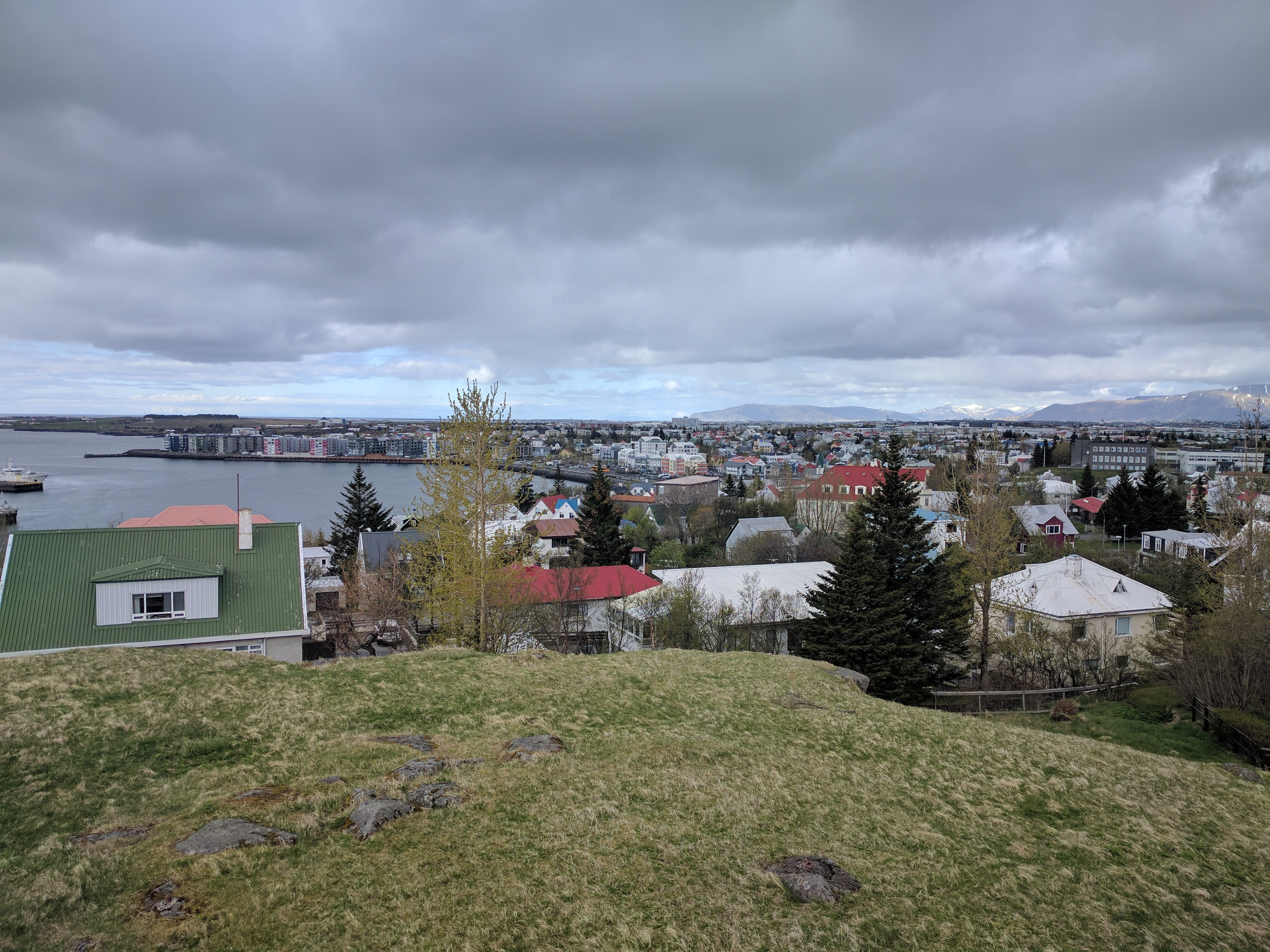 A photo that shows a view over the town center of Hafnarfjörður in May 2017